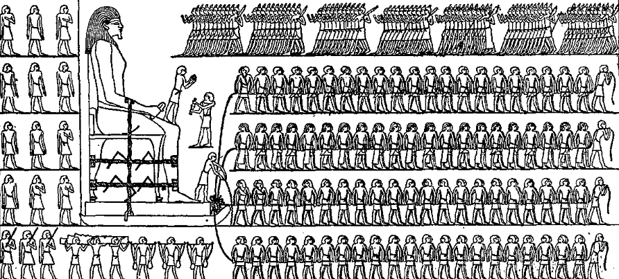 An illustration from the Encyclopaedia Biblica, a 1903 publication which is now in the public domain. Fig. 8 for article "Egypt". Image of Dragging a statue of Dhnt-hotep [sic] The statue, resing on a sledge, is being dragged by four rows of men supposed to be in parallel lines on the ground. Above them are 'the whole population of the city' come out to do homage. The man standing on the knee of the statue gives the signal to the men below; the man on its foot pours water on the ground in front of the sledge. Above the latter is Her-heb with a vessel of incense (?). Below the statue are men with water-buckets and wood, also three overseers; behind the statue the retinue of the governor.